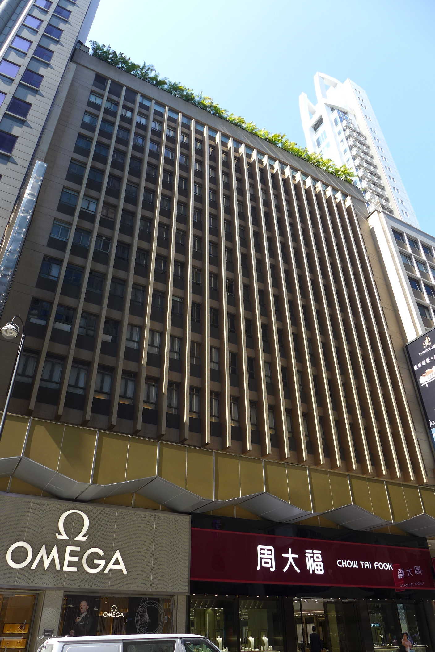 Manning House